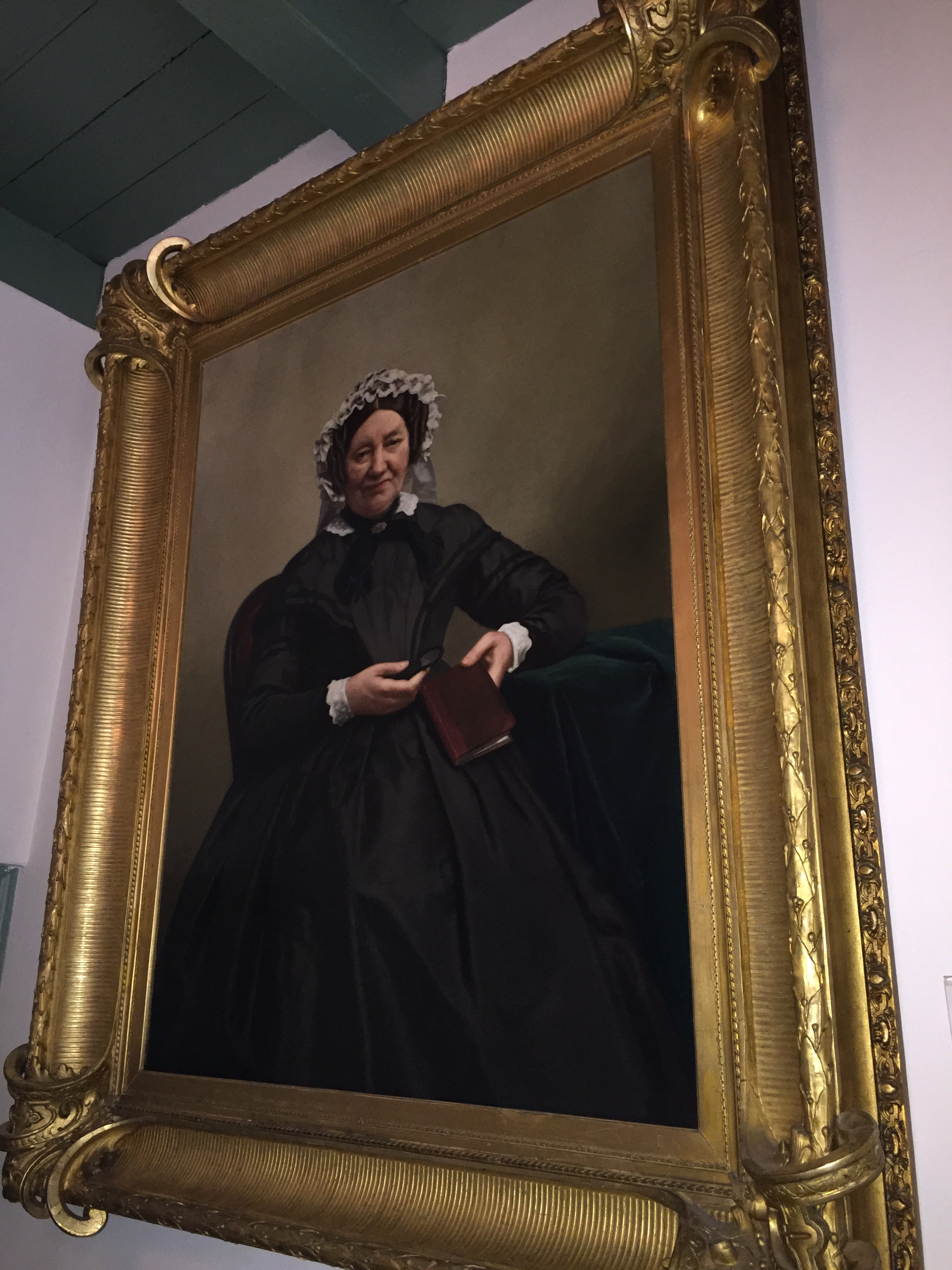 Portrait of Elisabeth Achenbach by Jacob Spoel (1820-1868). Painting made in 1865. Location 2018: Ambachts- en Baljuwhuis, Voorschoten (NL)